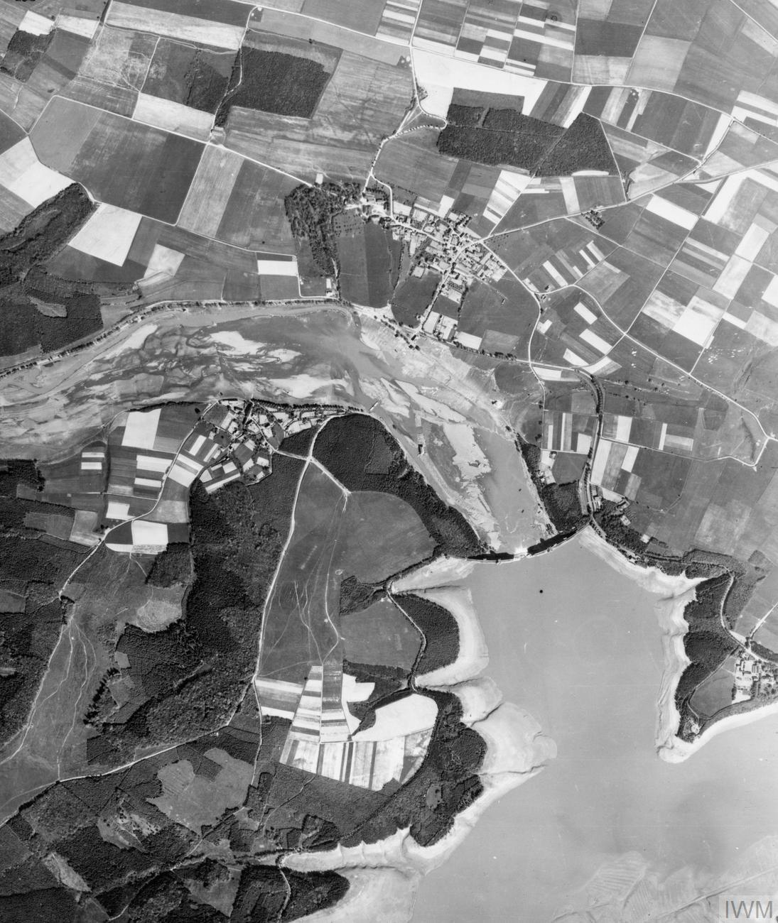 Royal Air Force, 1942-1945. Copy negative created from material loaned to the museum. Image depicts: Overhead aerial reconnaissance view of the breached Moehne Dam, taken by a Supermarine Spitfire of No.541 Squadron Royal Air Force. Note the much reduced outflow from the breach, and the low level of the lake, indicating that the photograph was taken later on 17th, or possibly 18 May 1943.